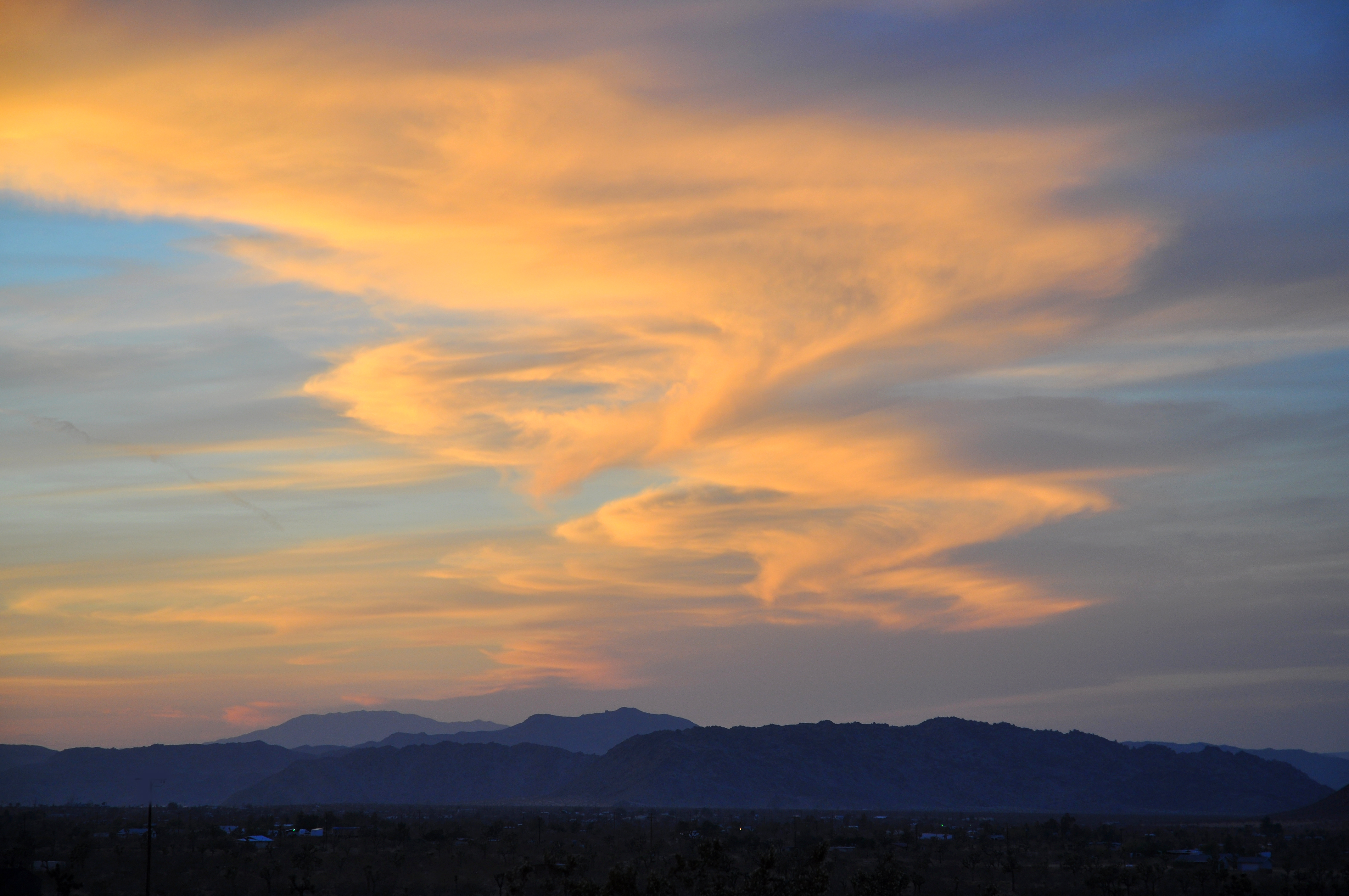 Whirlpool shaped clouds at twilight, caused by the Kármán Vortex Street effect.